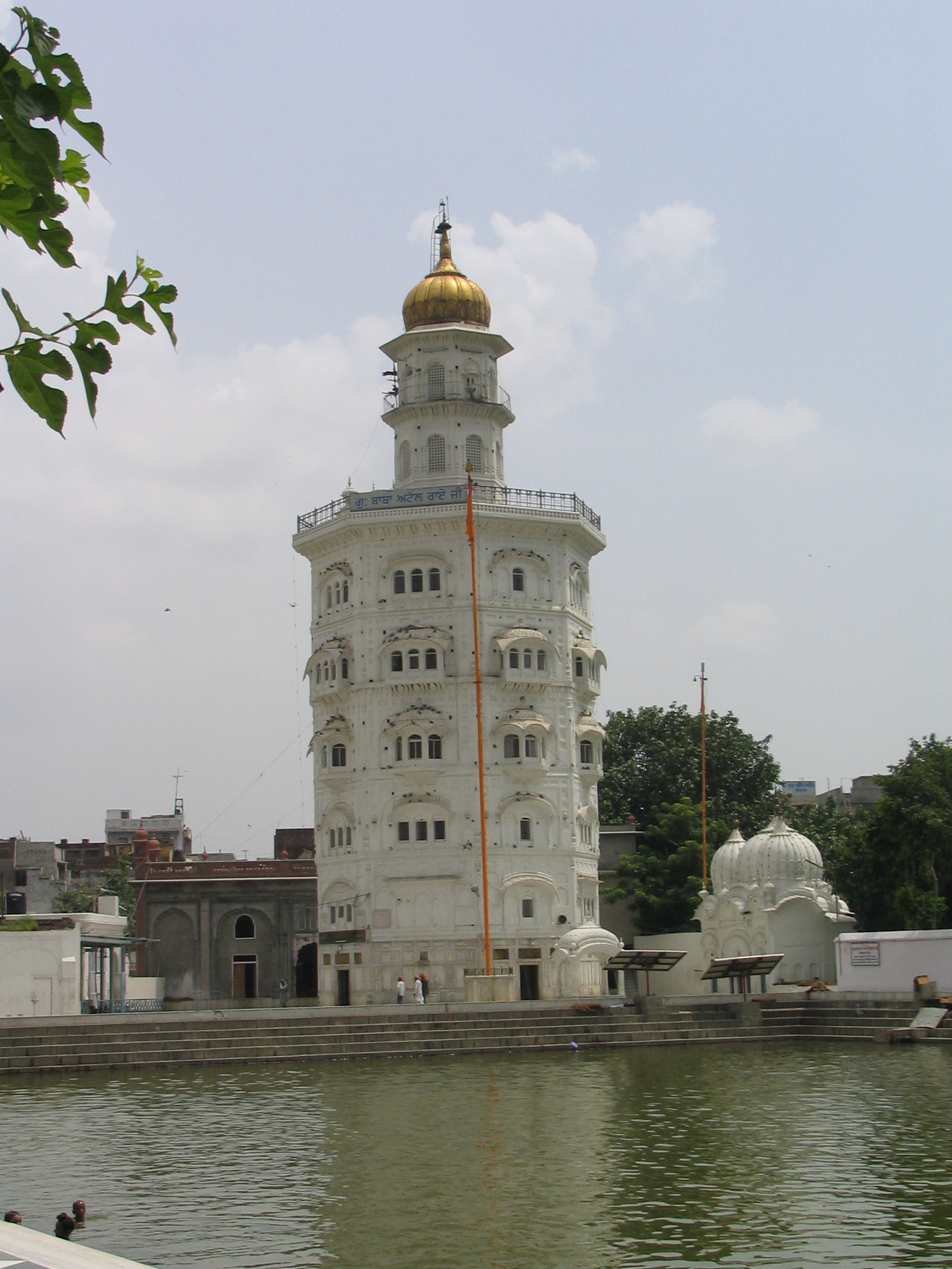 Gurdwara Baba Atal, near Golden Temple Amritsar. Dedicated to Baba Atal Rai, the son of Guru Hargobind sahib. Good view of city can be seen from top of this nine floor building.